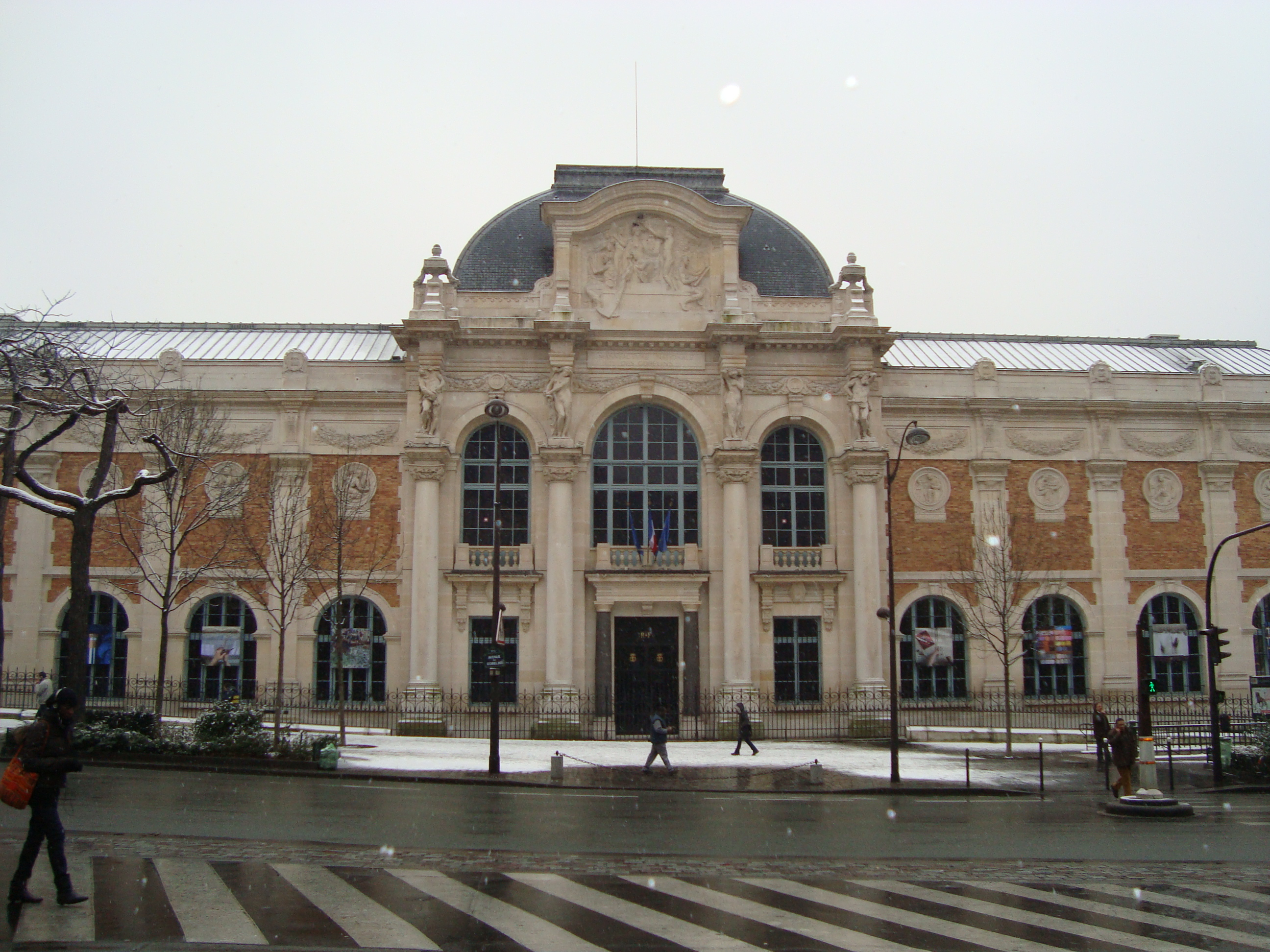 The Manufacture des Gobelins, in Paris XIIIth arrondissement